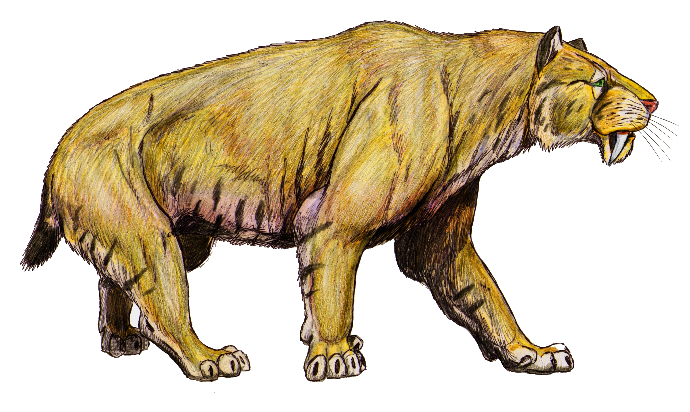 Smilodon populator, sabertooth cat from Pleistocene of South America